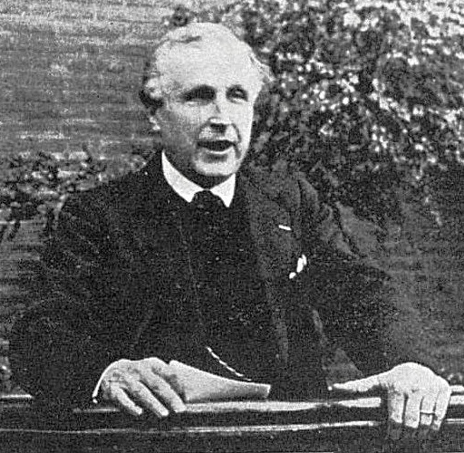 Photograph of the French writer Armand Praviel (1875 –1944)